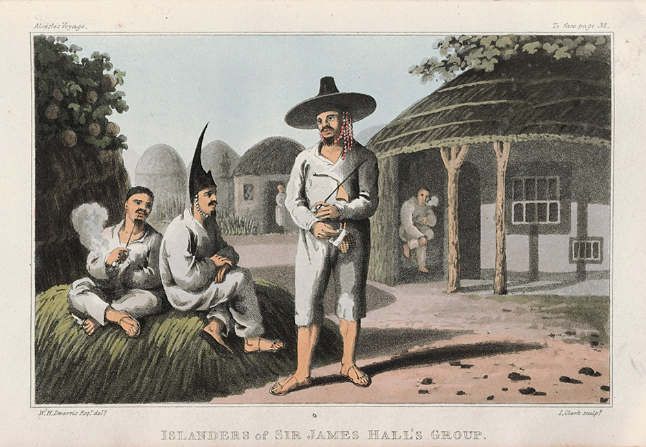 Islanders of Sir James_Hall's Group (Ongjin County, Korea); Illustration from: John MacLeod: Narrative of a voyage, in His Majesty's late ship Alceste, to the Yellow Sea, along the coast of Corea and through its numerous hitherto undiscovered islands, to the Island of Lewche; with an account of her shipwreck in the Straits of Gaspar. London, John Murray, 1817.